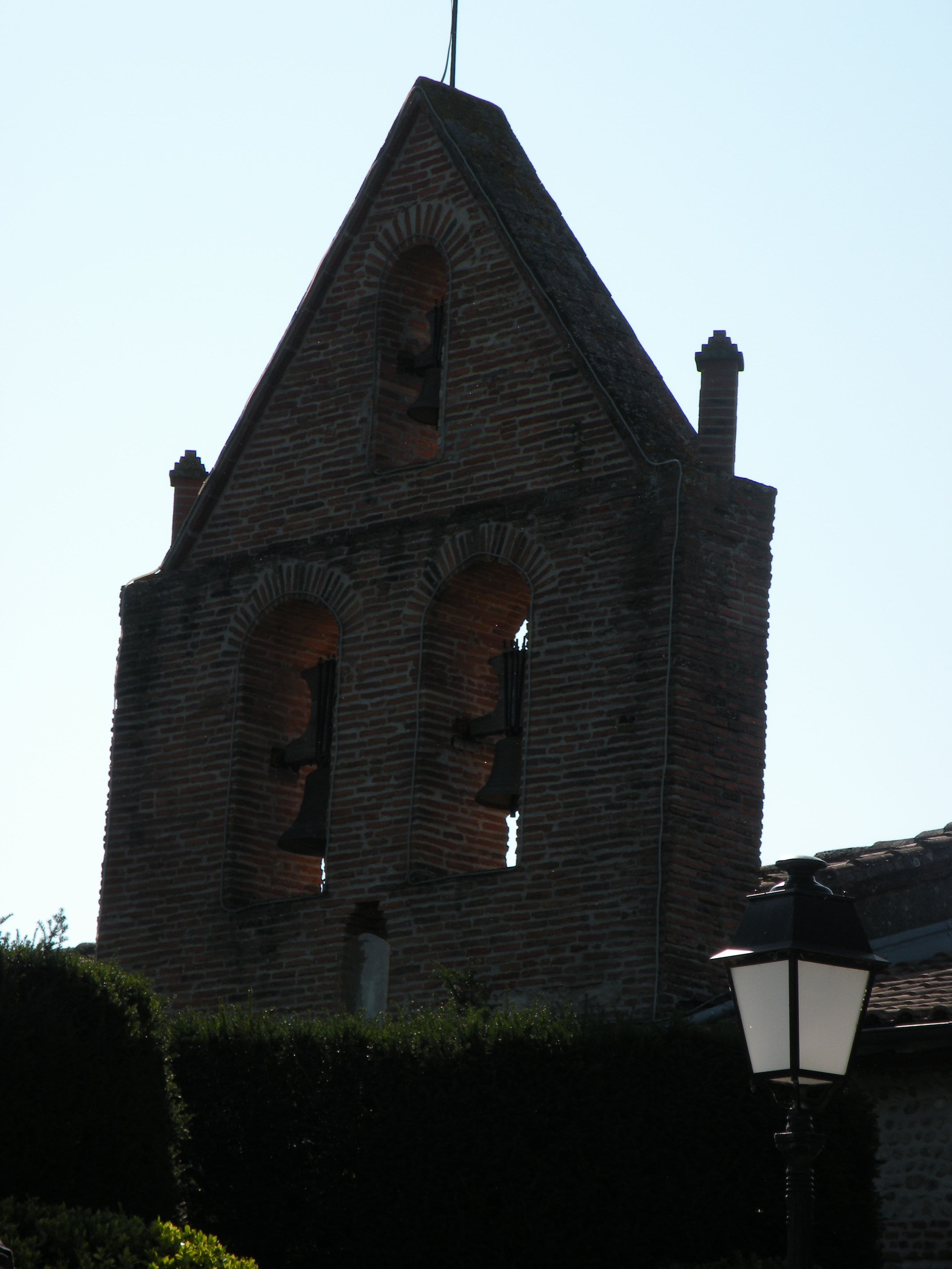 Steeple of the Church of Villate